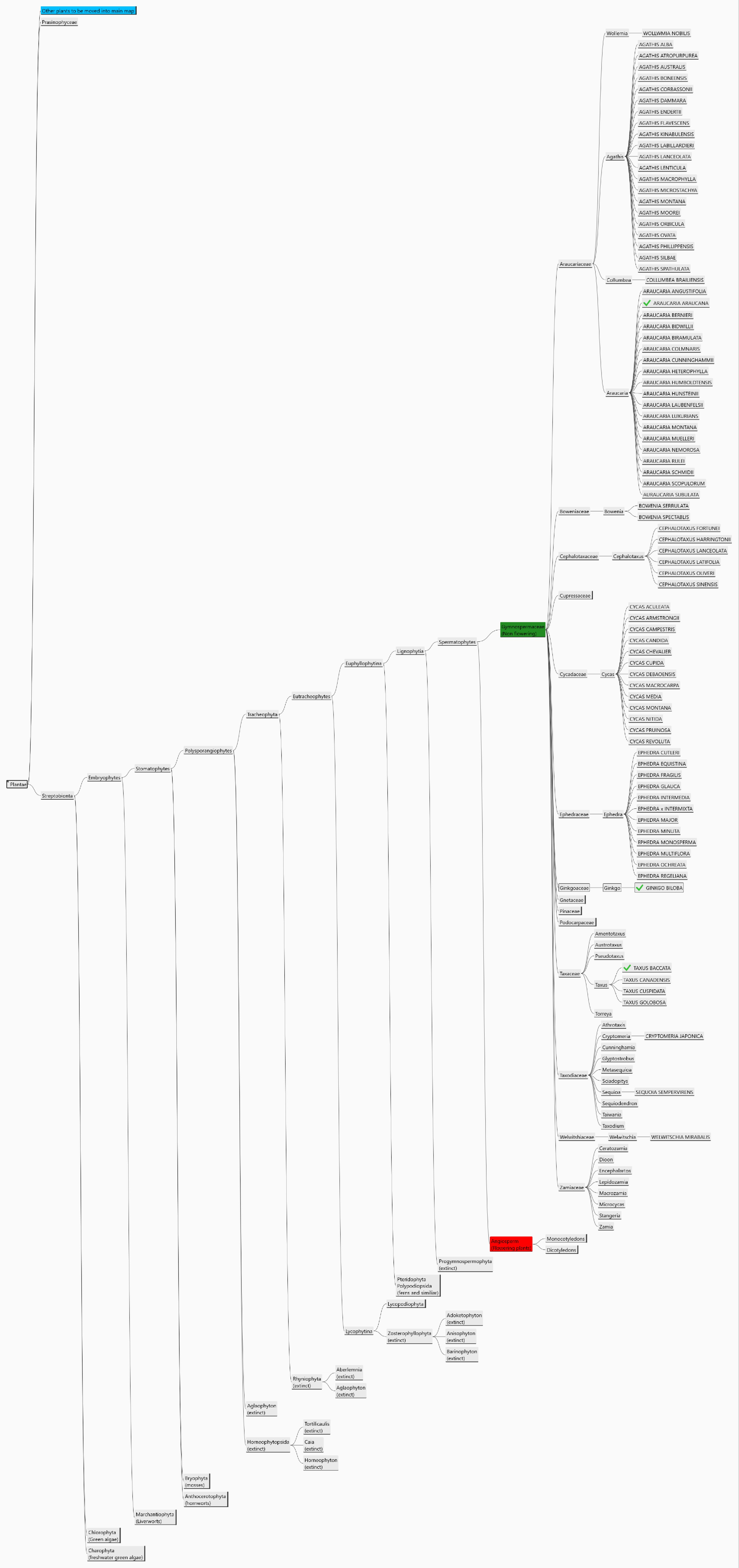 Some gymnosperms on a taxonomy tree